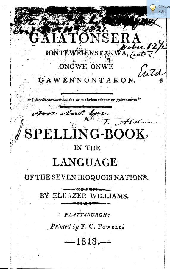 Title page for Gaiatonsera ionteweienstakwa, ongwe onwe gawennontakon. A spelling-book in the language of the seven Iroquois nations by Eleazer Williams